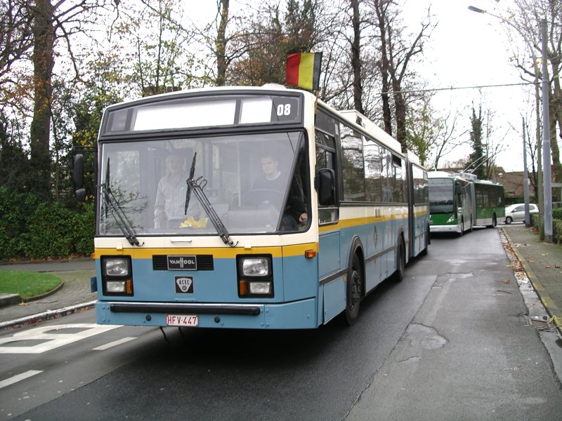 Museum trolleybus 7408 Van Hool AG280T in Ghent.